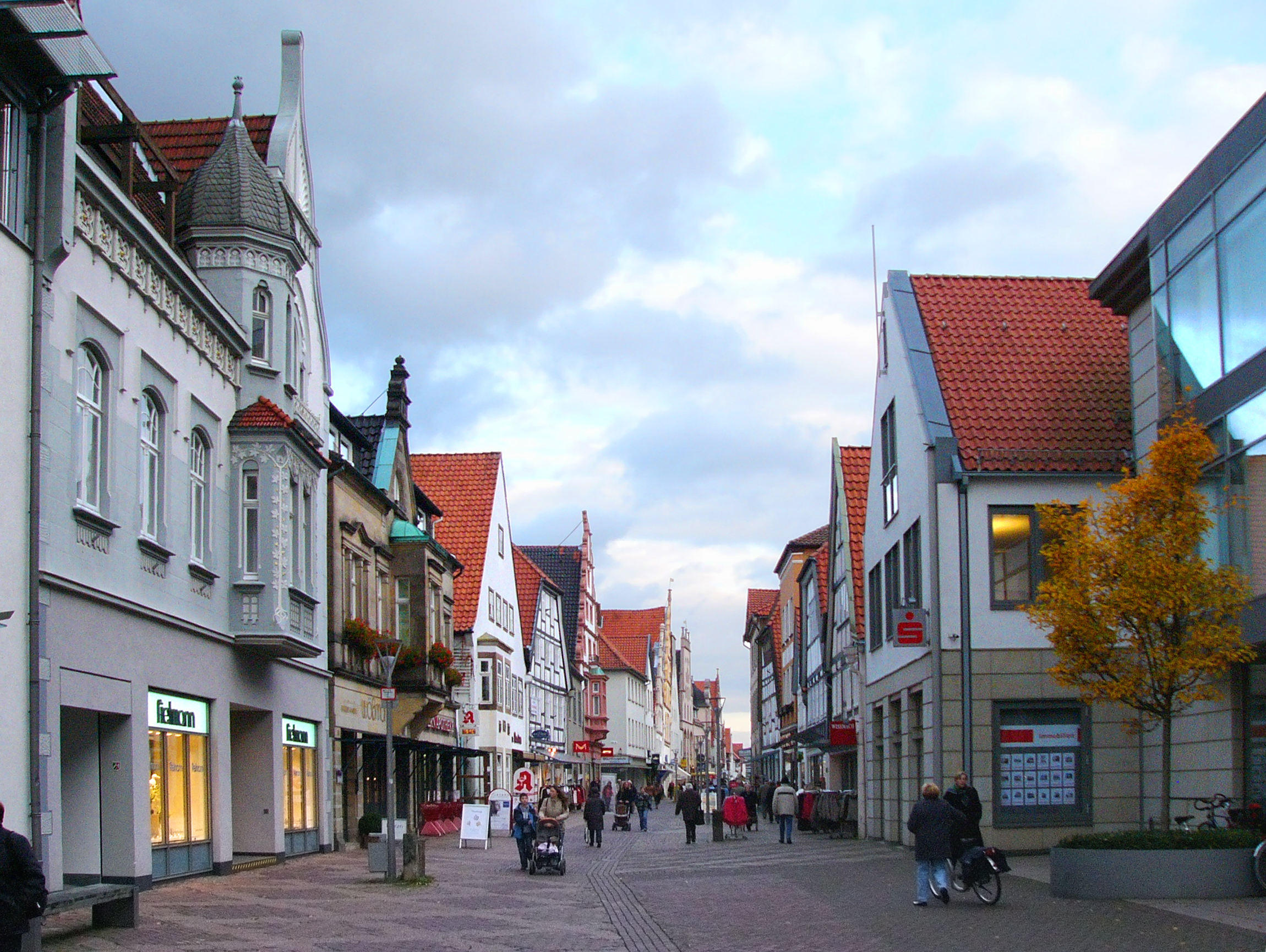 Mittelstrasse in Lemgo, Germany